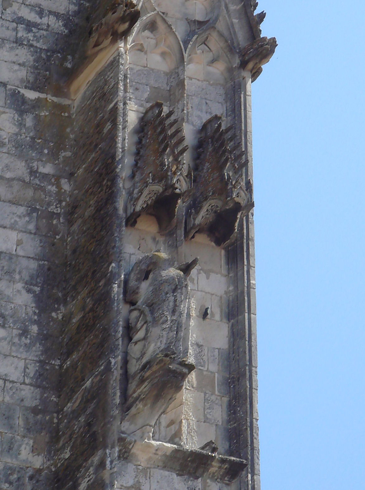 Iconoclasm_Eglise_Saint_Sauveur_La_Rochelle